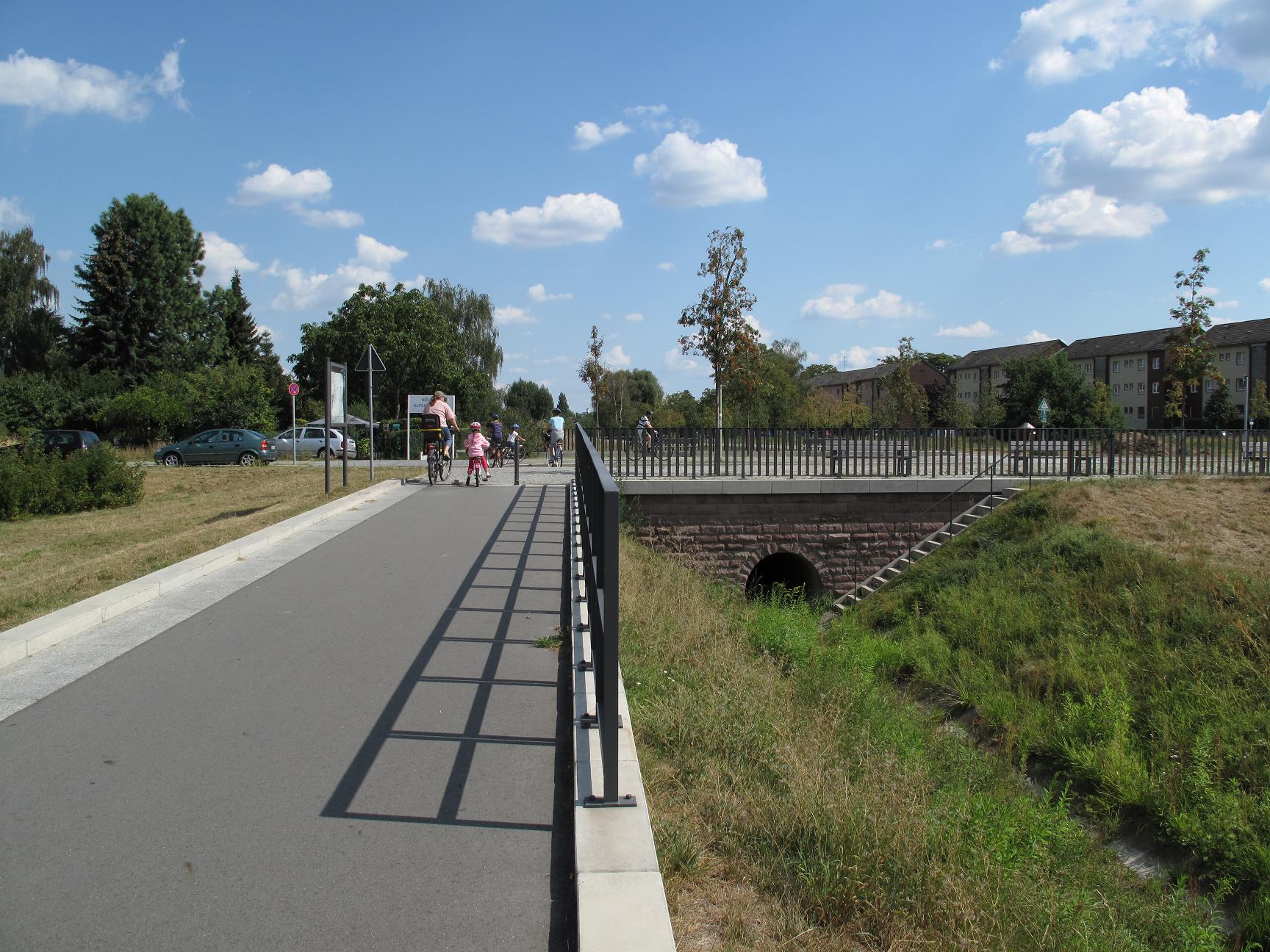 The Bullengraben (german for: bullditch) is a drainage channel to the river Havel in the localities Staaken, Wilhelmstadt and Spandau in the borough Berlin-Spandau, Germany. In 2007 there was opened the green space Bullengraben (german: „Grünzug Bullengraben“) along the 4,5 kilometre long ditch.